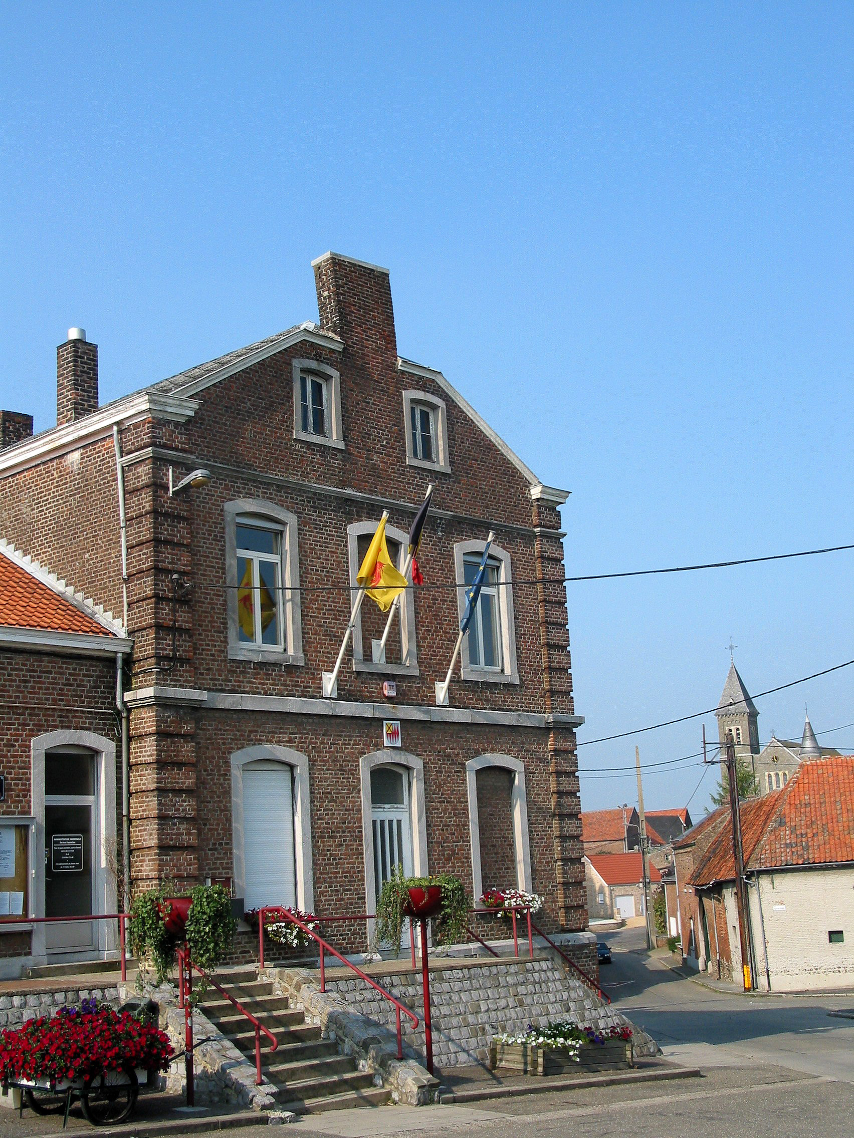 Crisnée (Belgium), the town hall.